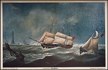 Oil painting depicting the ship Olbers, built by Johann Lange in Bremen, that carried German immigrants to Brazil.